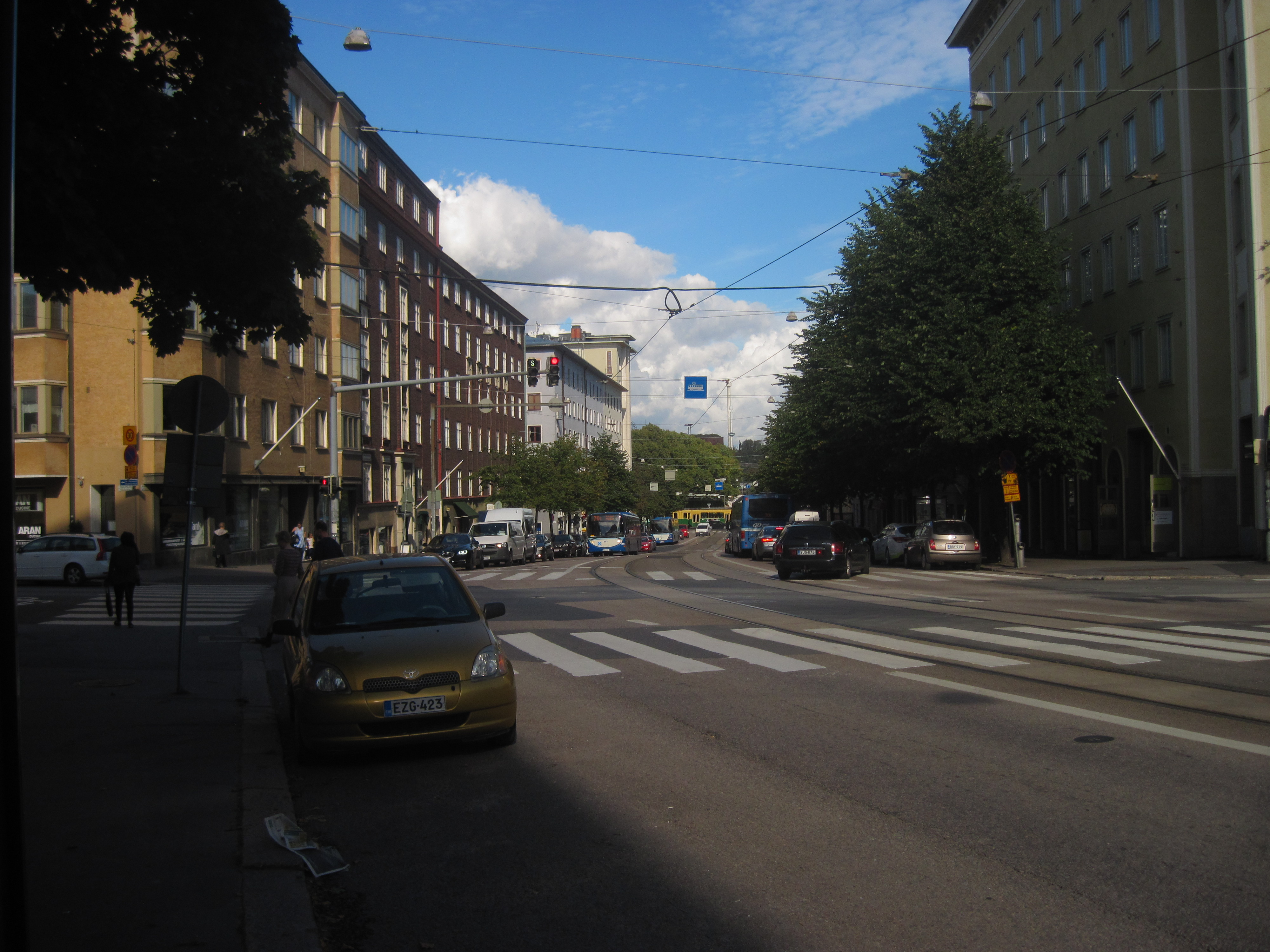 Northern part of Runeberginkatu, Helsinki